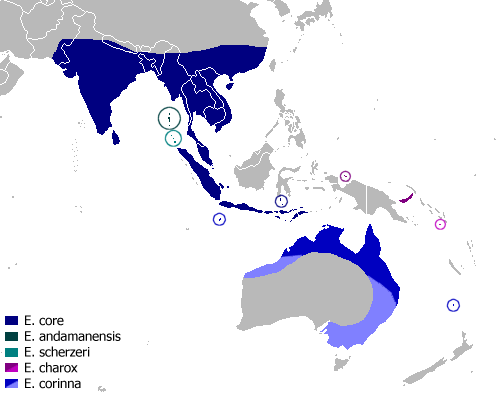 Distribtion map of Common Crow (Euploea core) and the former four subspecies raised to species in 1993. Light blue marks the regions where Euploea corinna occurs only temporarily.